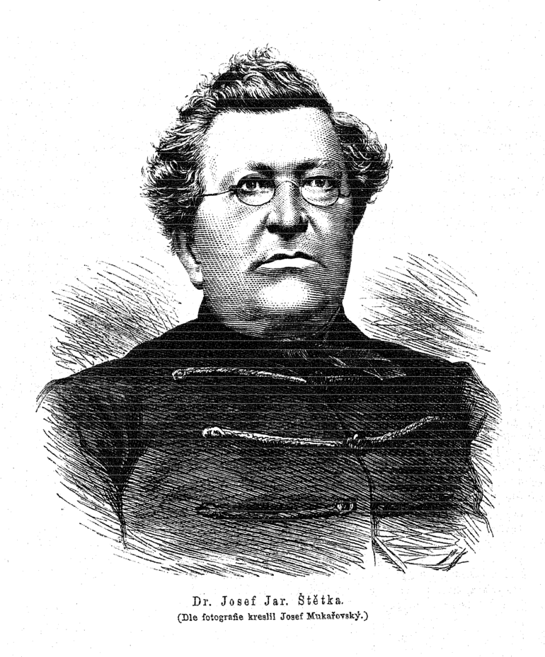 Portrait of Josef Jaromír Štětka (1808-1878), Czech physician, director of a hospital and a mayor of Kutná Hora.